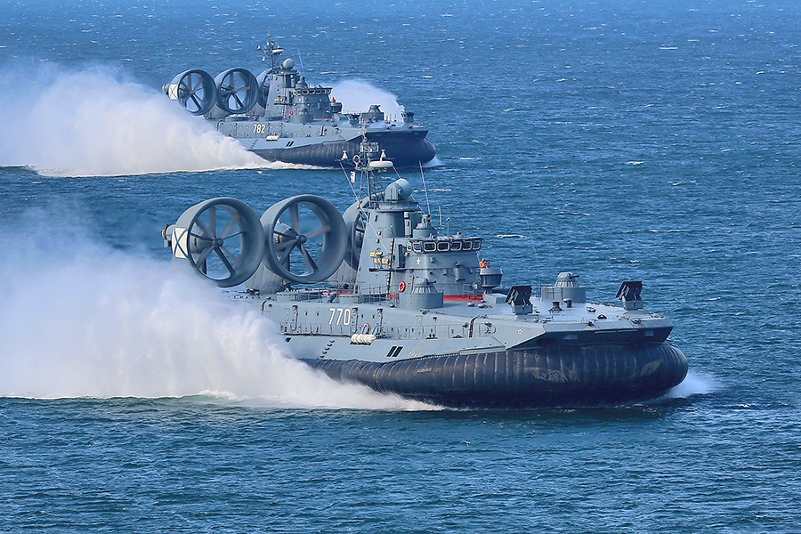 Mordovia and Yevgeniy Kocheshkov landing in Kaliningrad Oblast.